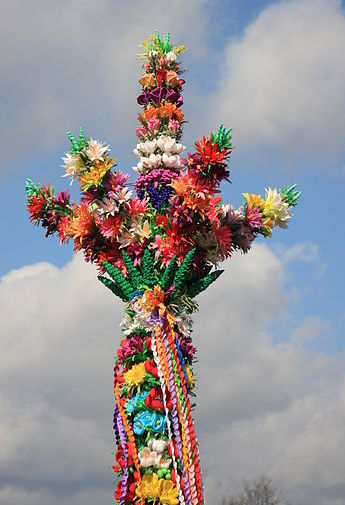 March 28th Palm Sunday is the last Sunday before Easter. It commemorates the day when Jesus rode into Jerusalem, and people greeted him by waving palm fronds and crying out 'Hosanna!'. In Poland, we do not have palm trees. We do, however, have extremely rich folk traditions which date back to pre-Christian times, and which have largely survived in the Catholic custom. Such a tradition is weaving palms for Palm Sunday, and it is most alive in the colourful Northeastern region of Kurpie. Only there will you find such elaborate palms made out of crepe paper and dried flowers, so tall that they cannot be carried upright. The village of Łyse, which I visited this year, is one of those that hold a contest for the tallest and most beautiful palm. People from all over the region work hard for the forty days of Lent to make their entries. More about this tradition on my blog .